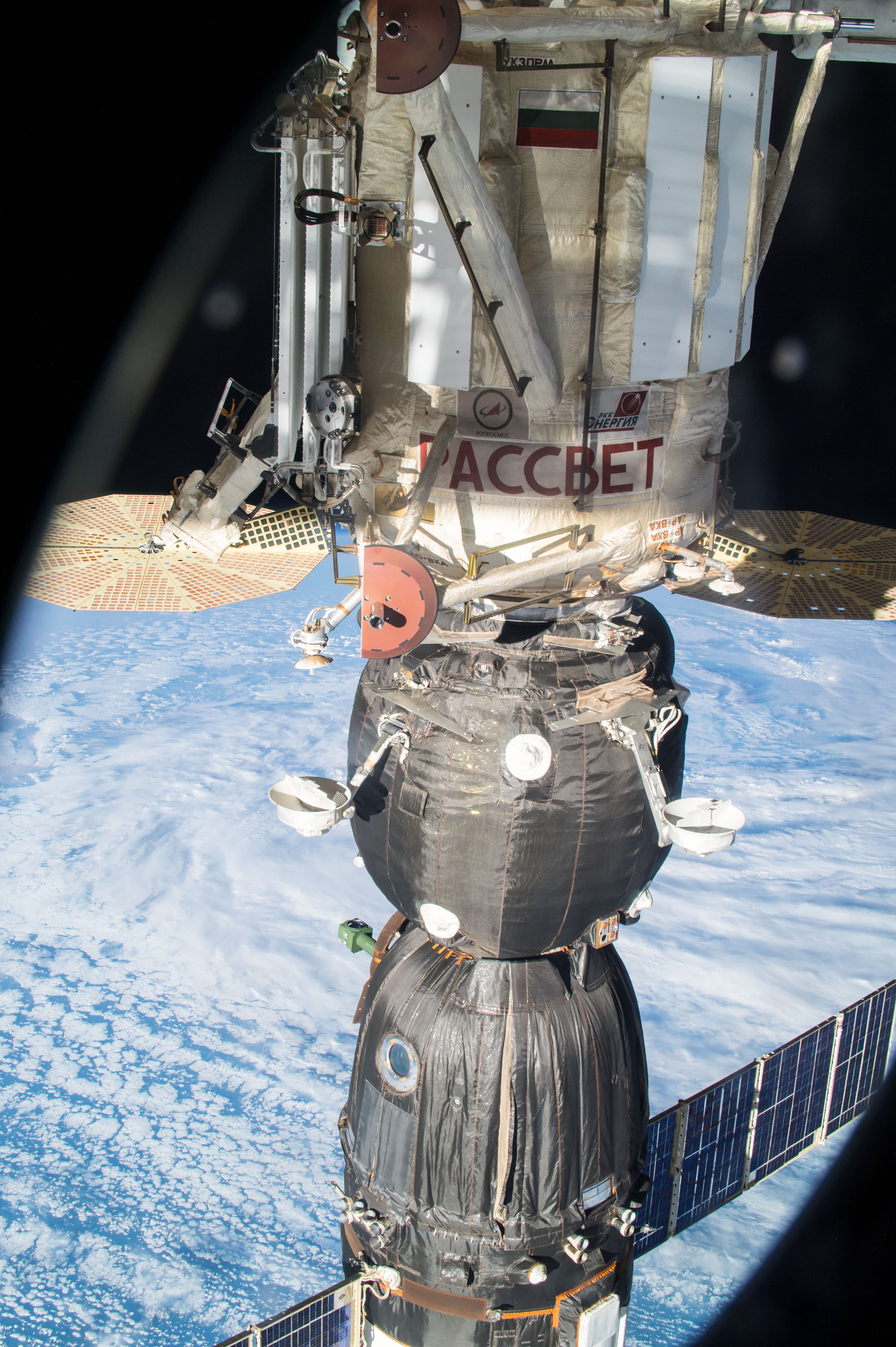 The Soyuz MS-05 crew spacecraft is pictured docked to the Rassvet Mini-Research Module-1. Pictured behind the Soyuz spacecraft and its docking port are the dual cymbal-like UltraFlex solar arrays that power the Orbital ATK Cygnus resupply ship.